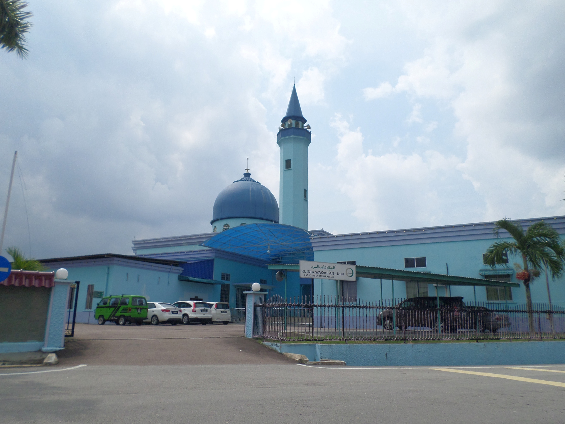 Kluang Town Mosque, Kluang, Johor, Malaysia